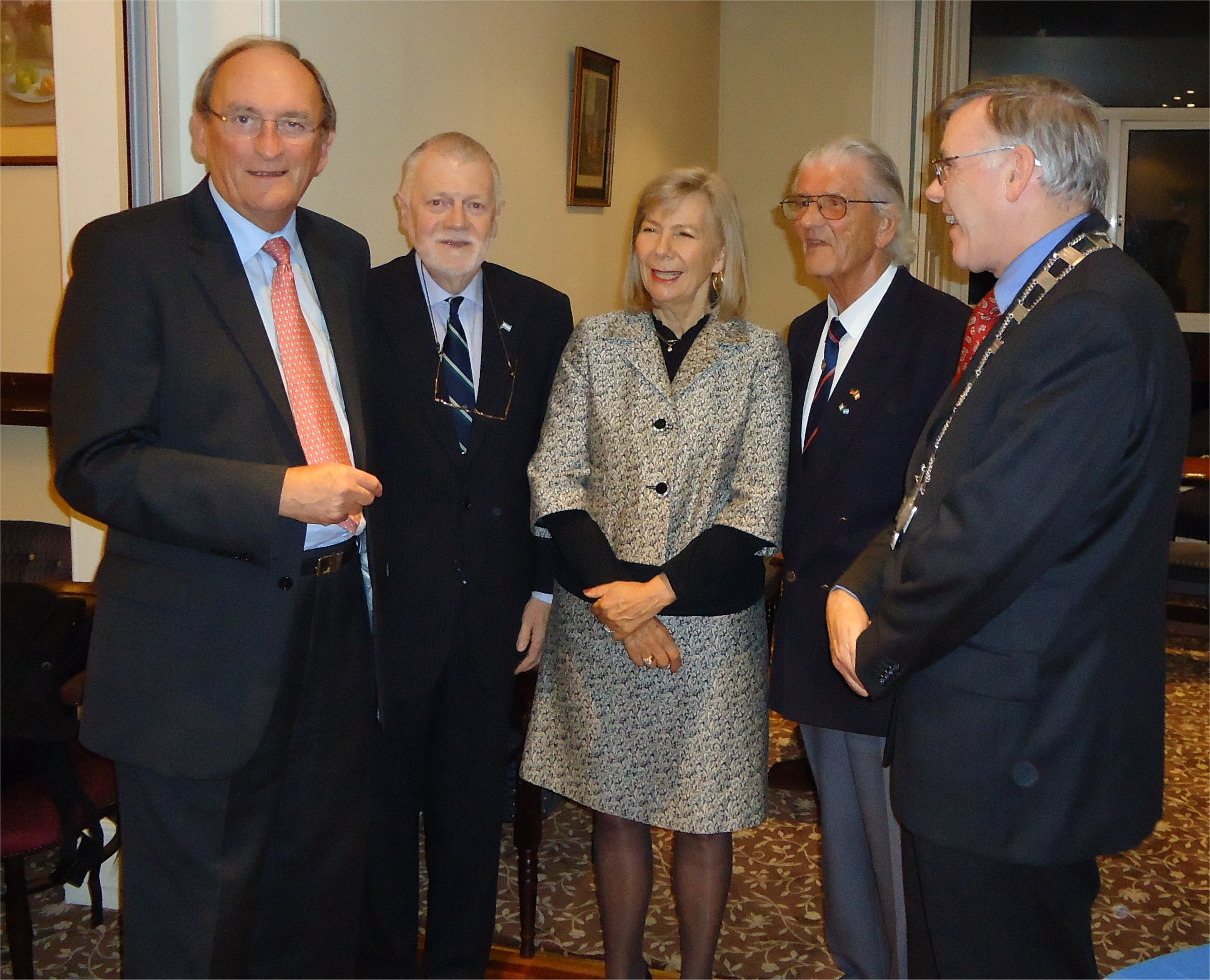 Left to Right: Sean Barrett TD, Peter Mulvaney of the Irish Seamen's Relatives Association, Her Excellency Maria Espher Bondanza the Argentine Ambassador to Ireland, Harry Callan (who was on a British ship which was captured by the Nazis as it left Buenos Aires, as an Irish sailor he was not accorded POW status. He is the last survivor of the captured Irish who refused to work for the Nazis). Lastly Peadar Ward (wearing chain of office) President of the Maritime Institute of Ireland